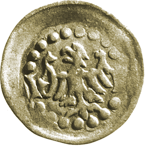 Heilbronner Reichspfennig 1420.png